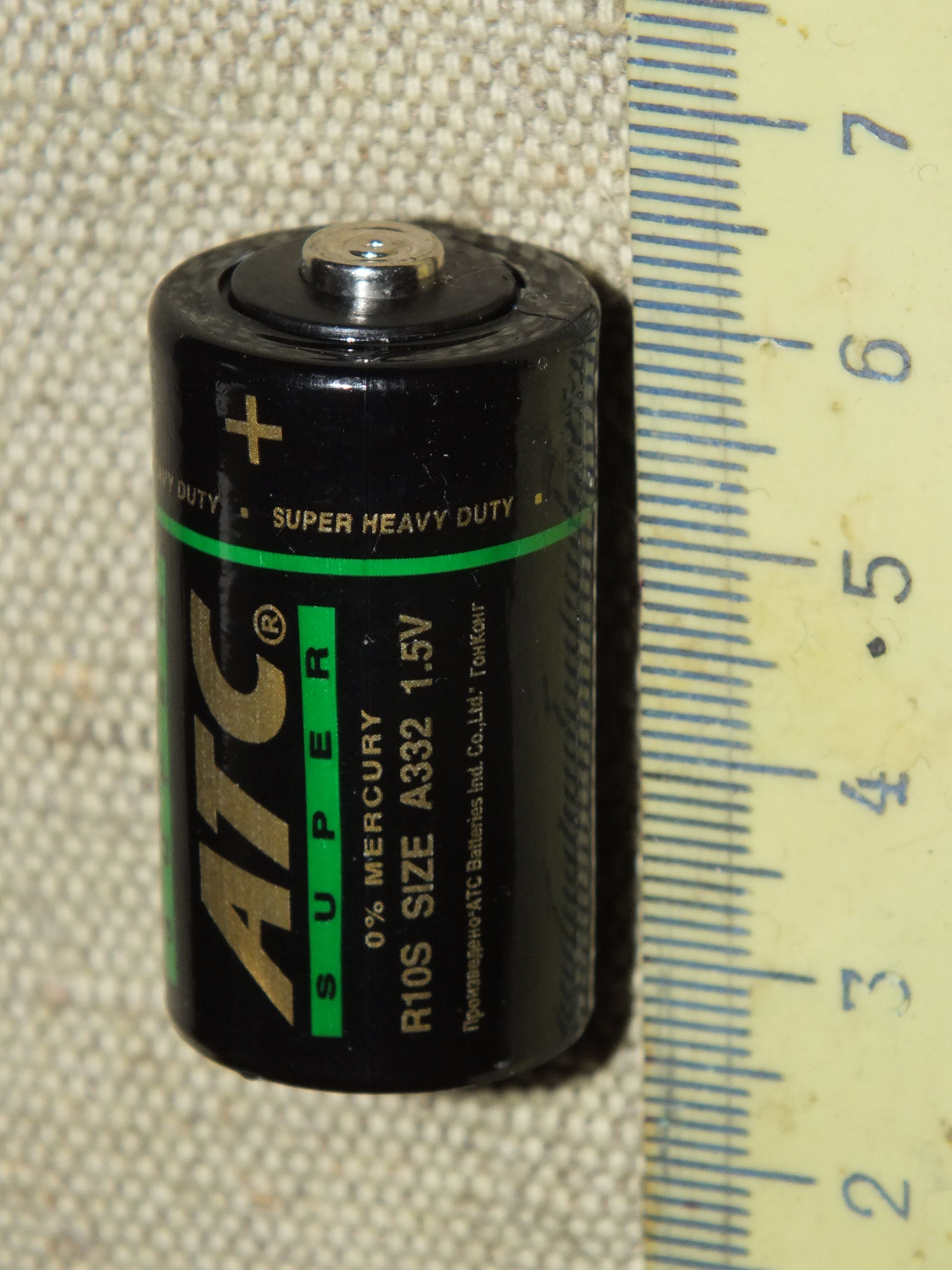 Electric batteries